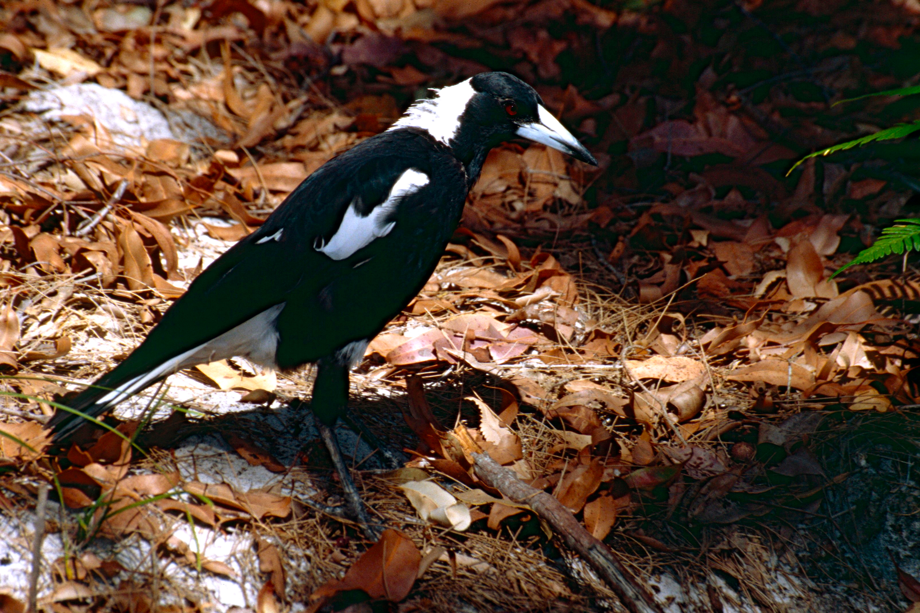 Noosa NP, Noosa Heads, South Queensland, AUSTRALIA Scanned Slide from Dec 2000